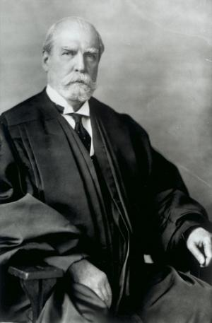 Portrait of Charles Evans Hughes, Chief Justice of the United States.